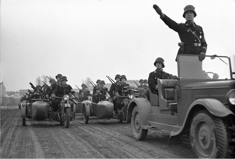 Information added by Wikimedia users.motorcyclists of the SS-Leibstandarte "Adolf Hitler" in a presentation.